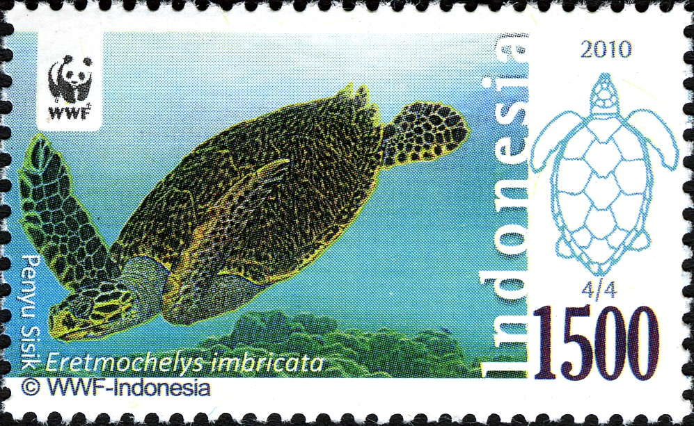 Stamps of Indonesia